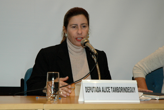 alice tamborindeguy